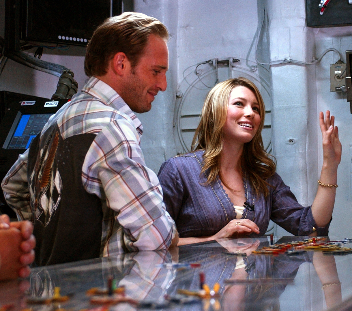 050716-N-0902H-032 San Diego (July 16, 2005) - Josh Lucas and Jessica Biel, portraying Naval Aviators in the upcoming Columbia Pictures movie “Stealth”, meet with Sailors aboard the Nimitz-class aircraft carrier USS Ronald Reagan (CVN 76) prior to a screening of the new action film. U.S. Navy photo by Photographer's Mate Airman Zachariah A. C. Hinds (RELEASED) from